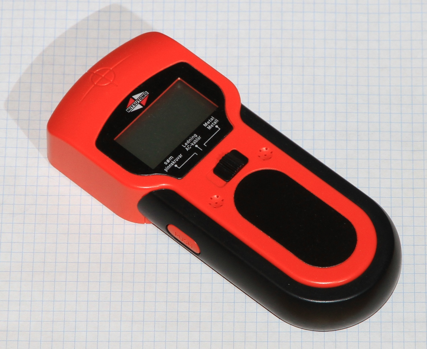 Mitsutomo Intelligent Multidetector. An example of an average stud finder as they're available in hardware stores etc. per 2010.